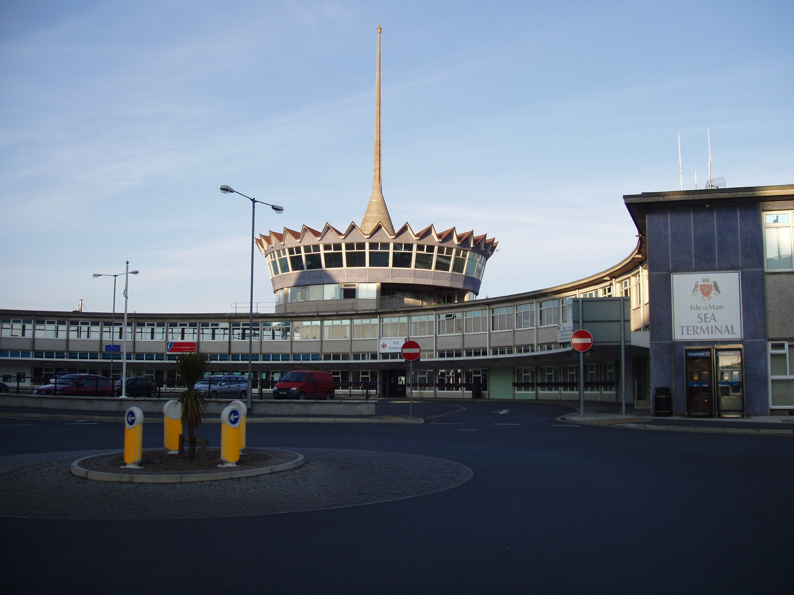 Front facade of the sea terminal at Douglas, Isle of Man including the passenger drop-off area. The terminal is actively used by the Isle of Man Steam Packet Company to ferry passengers, cars, and freight to points within the British Isles.